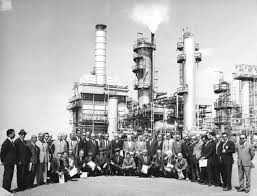 disoil1